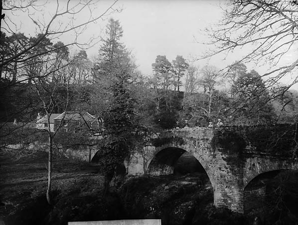 1 negative : glass, dry plate, b&w ; 16.5 x 21.5 cm.